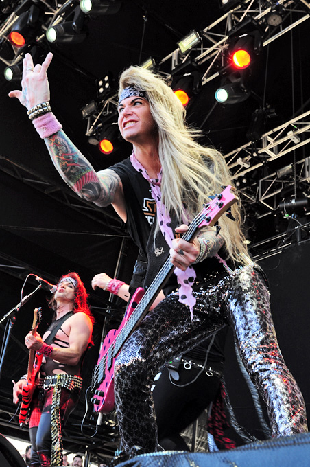 Soundwave Festival 2012 Do Not Publish